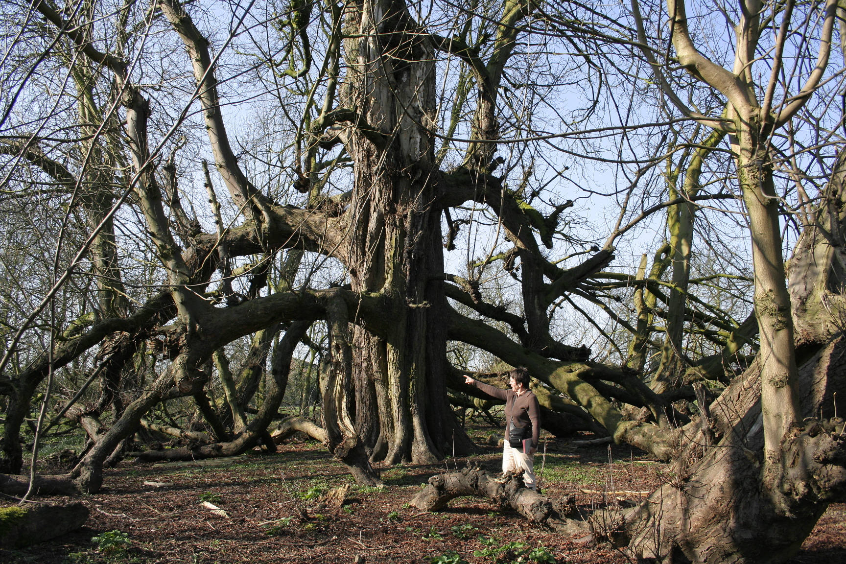 Common Horse-chestnut.